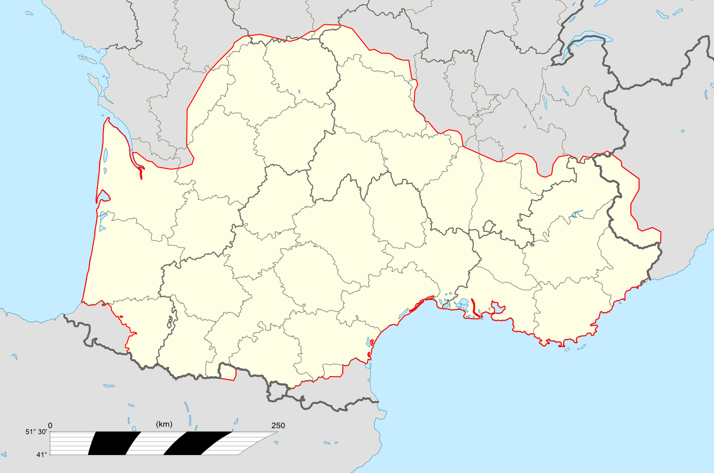 Blank map of Occitania for geo-location purpose, with regions and departements distinguished.